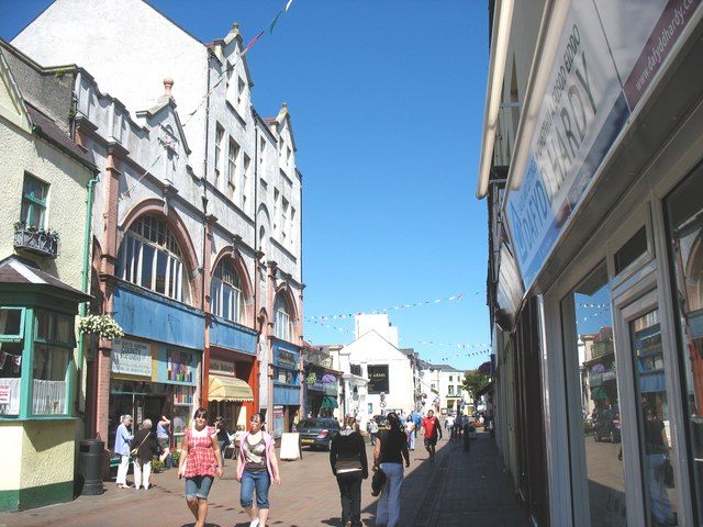 Shoppers in Stanley Street